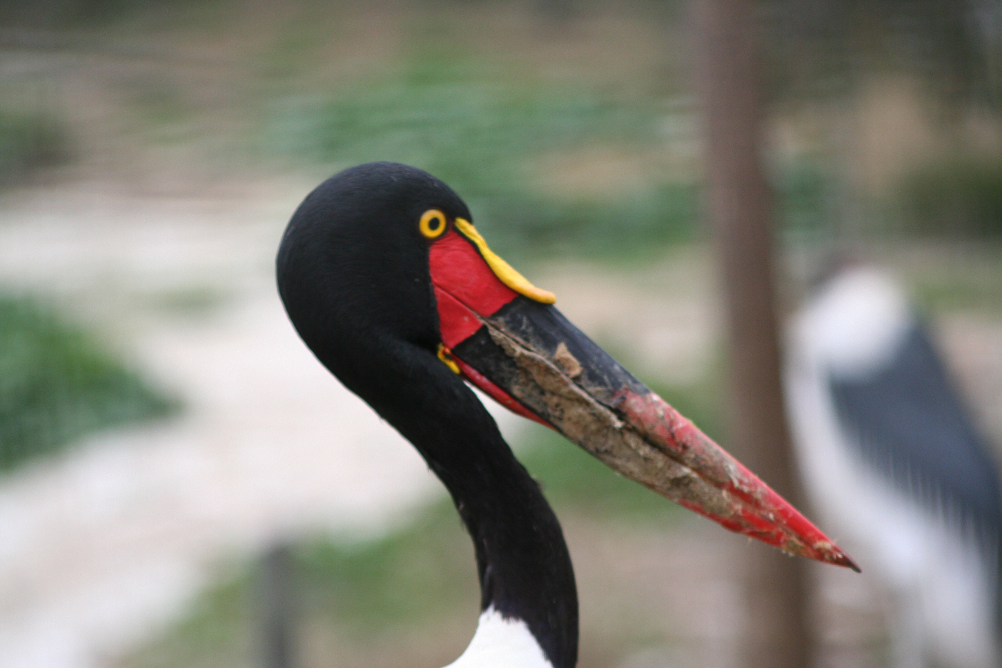 Ephippiorhynchus senegalensis (Saddle-billed Stork)